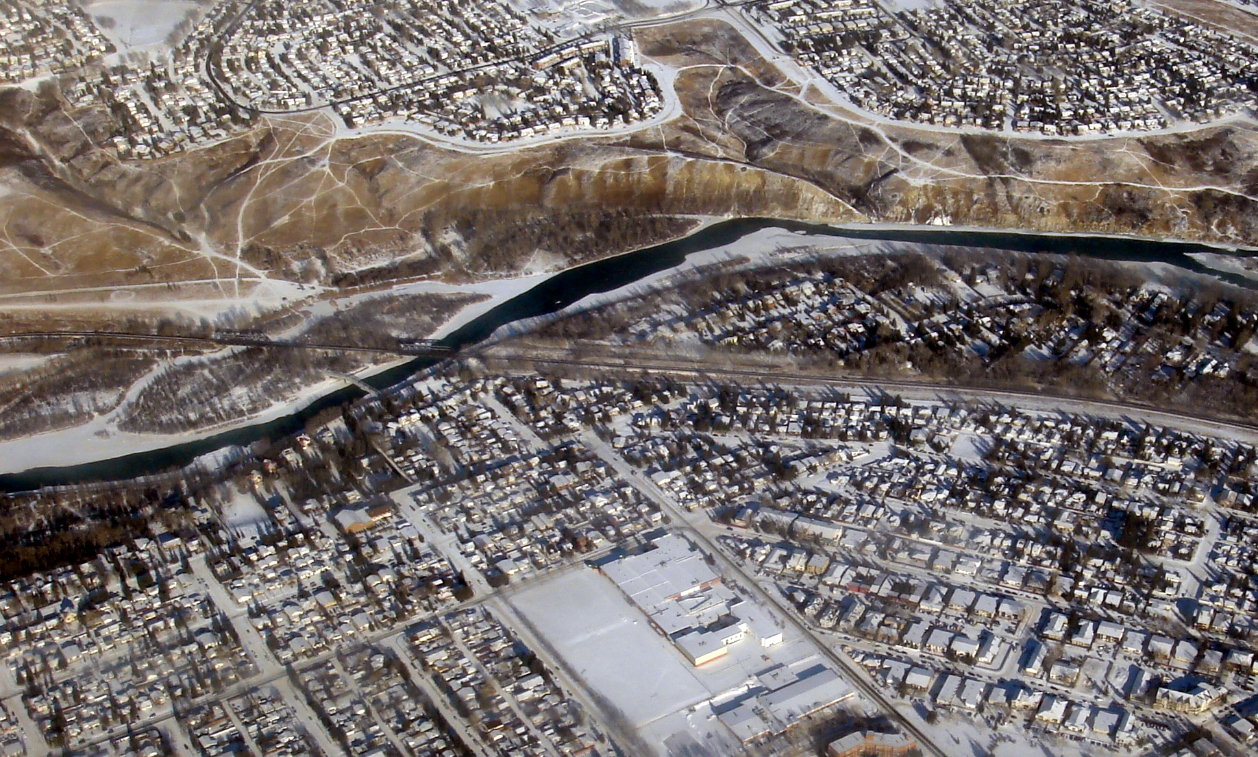 Railway Bridge over Bow River in Bowness, Calgary, Canada